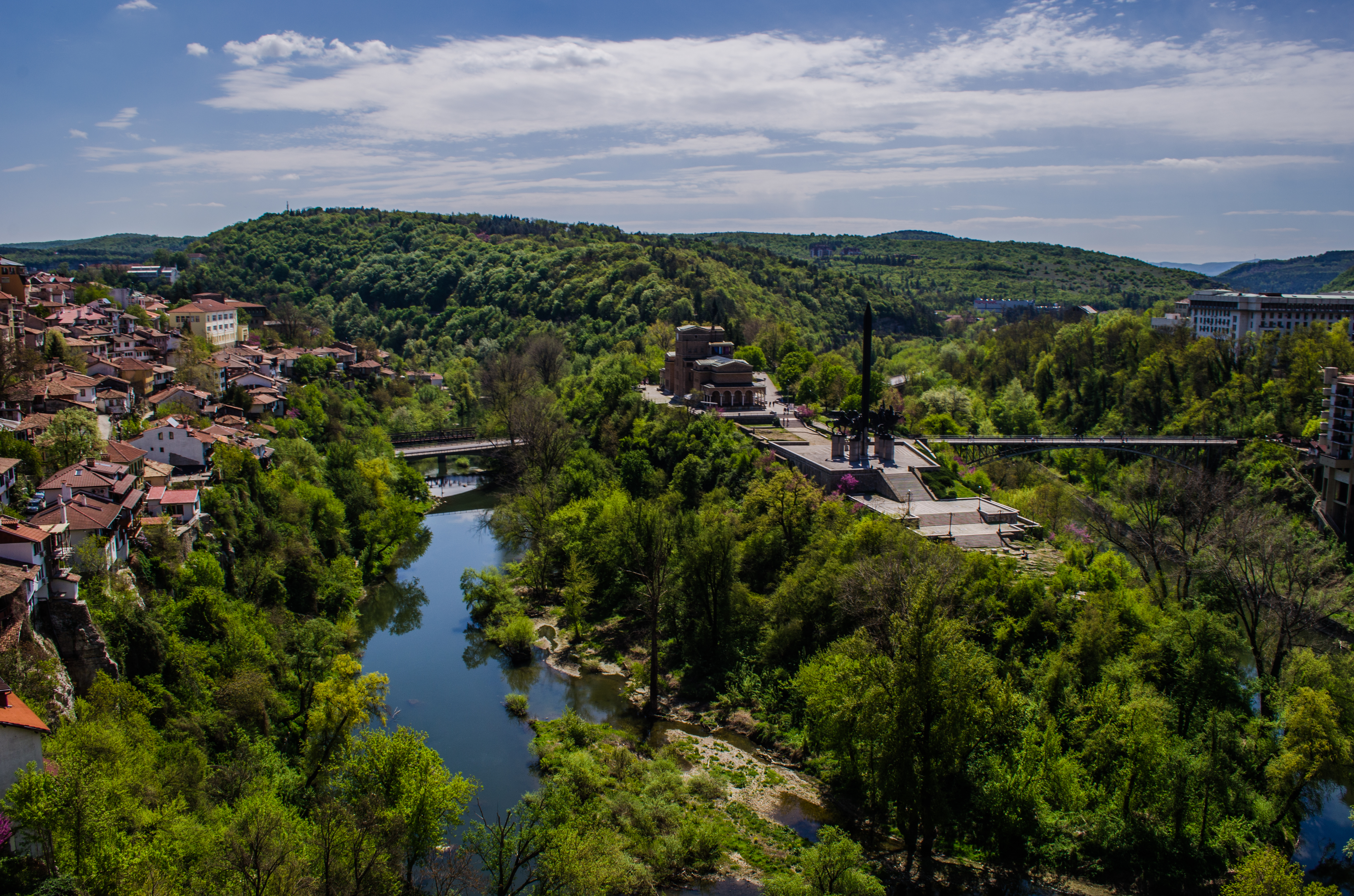 Monument of Asen dynasty and the Art Gallery in Veliko Tarnovo